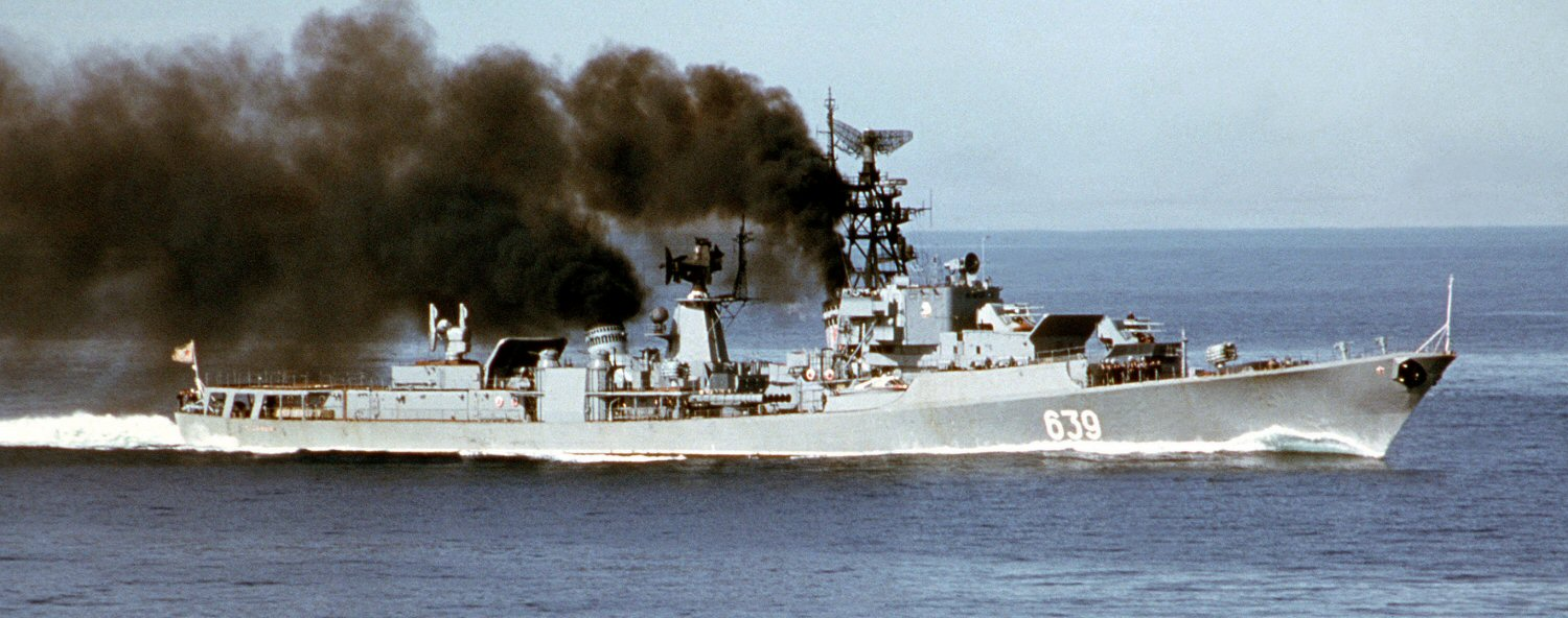 A starboard view of the Soviet Project 57A large ASW ship (Kanin class destroyer by NATO) Gremyashchiy underway.